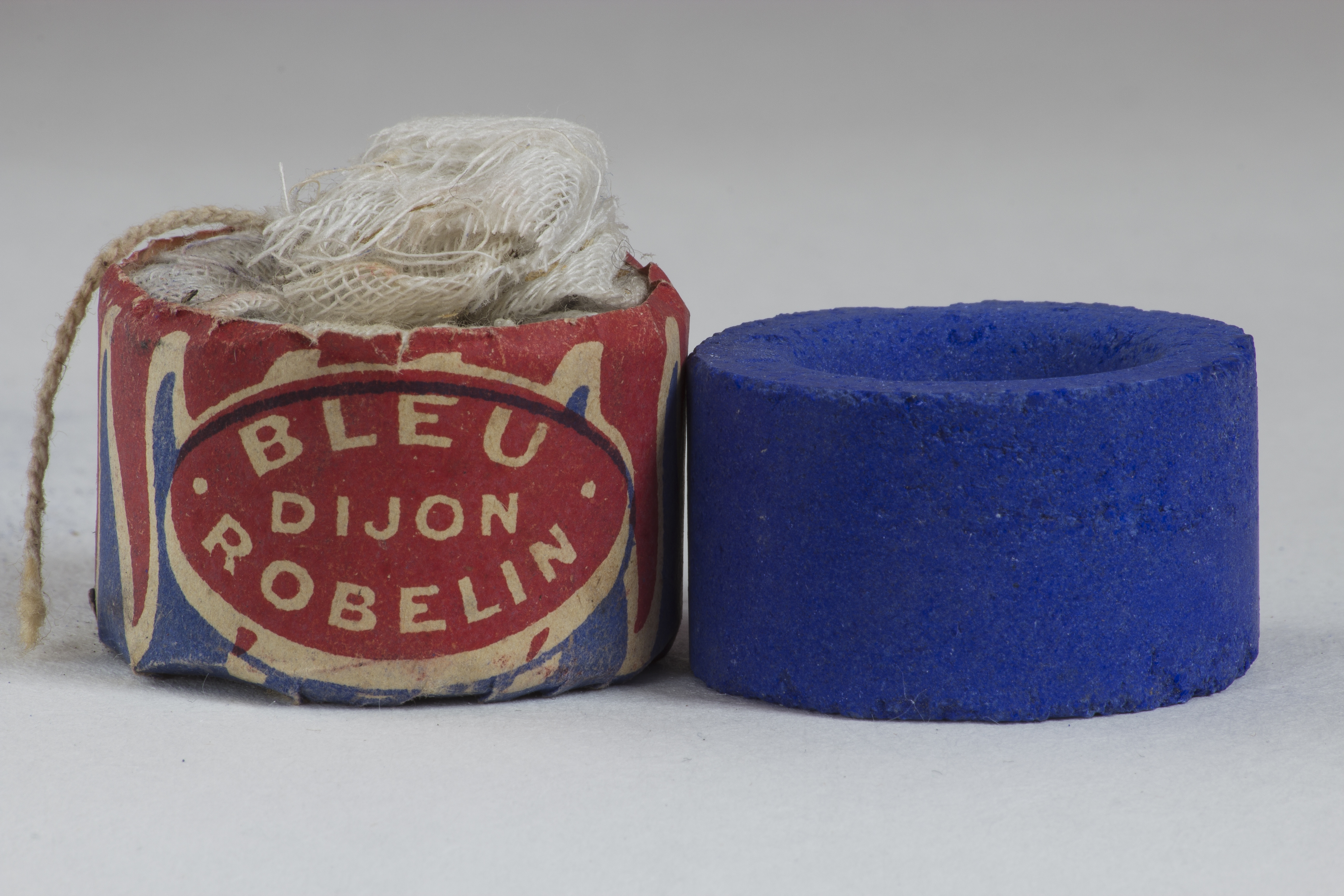 Artificial ultramarine blue, "Paris blue", "French Ultramarine". Jean Baptiste Guimet, whose wife, a painter, used expensive lapis lazuli, invented in 1826 an artificial ultramarine blue, called Guimet blue. This one is in particular used for the laundering of linen, known as brightening. Émile Guimet, the son of the inventor, will benefit from the invention of his father to travel especially in the East. The legacy of his collection of Asian art objects is the creation of the National Museum of Asian Arts - Guimet Museum. Dimensions of the pellet, marketed at Dijon, from 1869 to 1911, by Louis Robelin's Manufacture of Ultramarine Blue (Mayor of Dijon from 1882 to 1886): 3 cm in diameter and 1,8 cm high. Weight: 20g. More: TEXTILE - VINTAGE and RETRO. NB: The Chemical Company of Alais and Camargue , created by and Henry Merle, is at the origin of the Pechiney group.